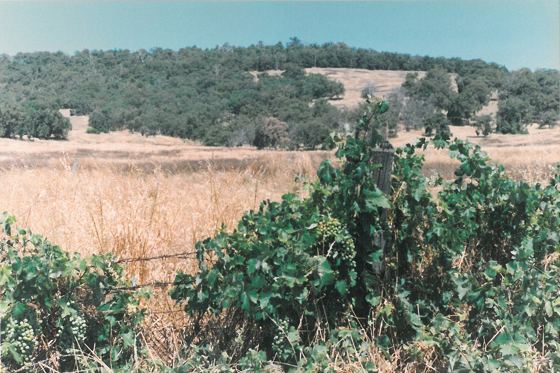 Vines growing on fence along South Western Highway, and McCarthy's Bare Patch, Mt Richon, Western Australia. Author: Ian L Boersma.